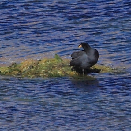 Horned Coot at Laguna Meñiques, Chile